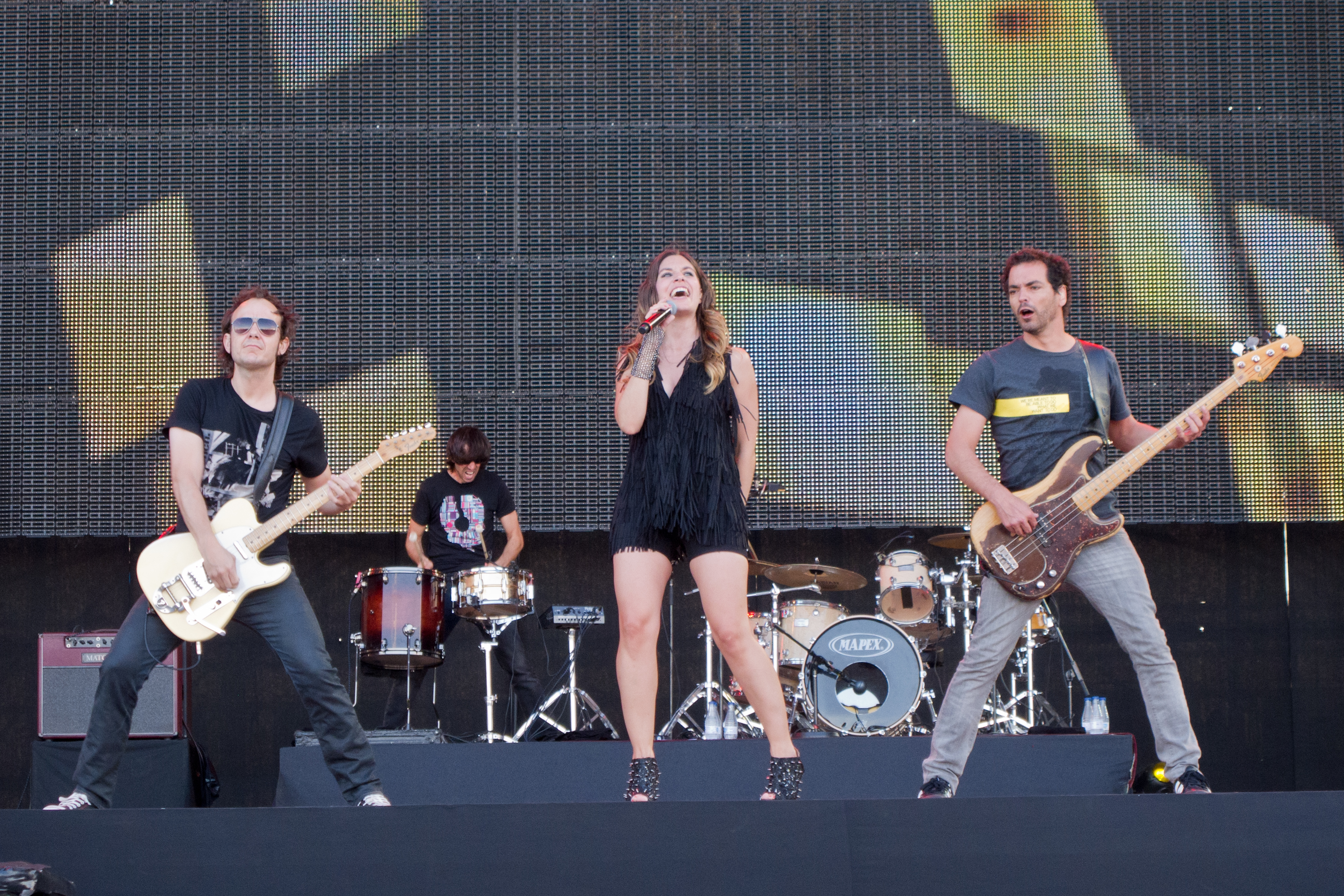 La oreja de Van Gogh in Rock in Rio Madrid 2012.